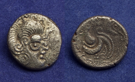 Celtic Gaul, Armorican tribe, billon stater